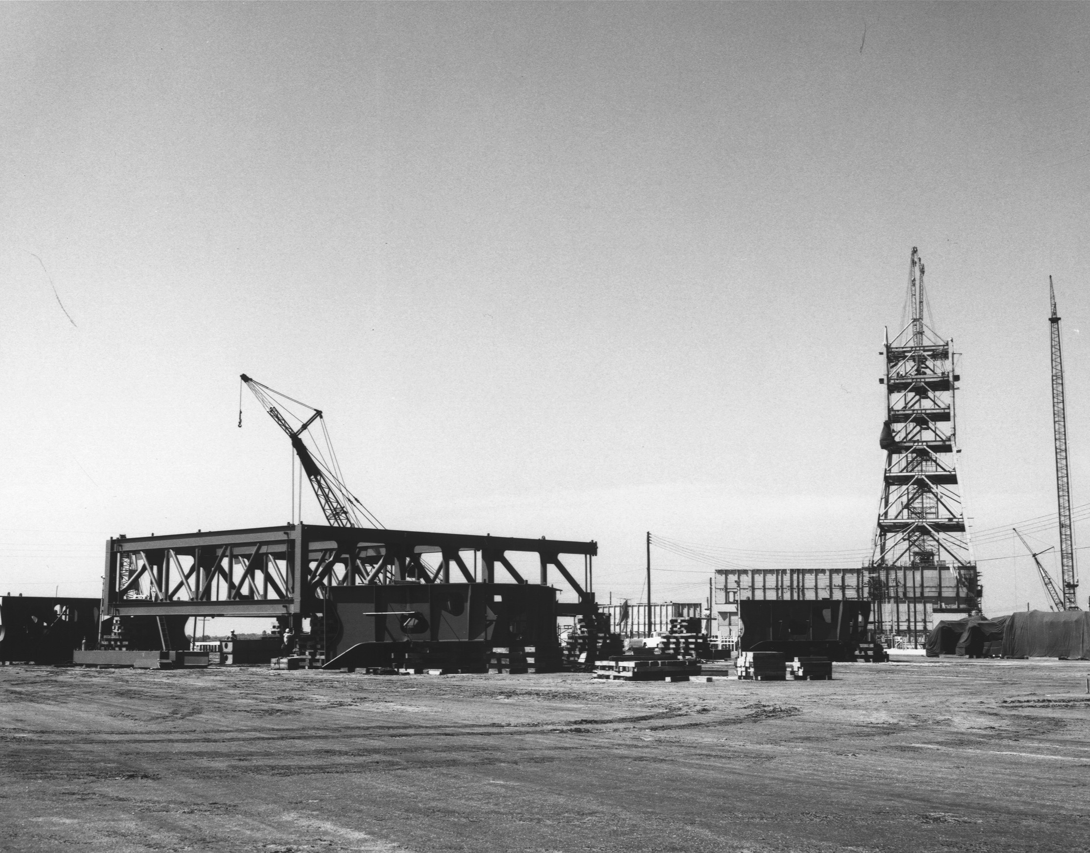 Ground view of the crawler-transporter construction site during early phase of construction. An Launch Umbilical Tower can be seen under construction in the background.